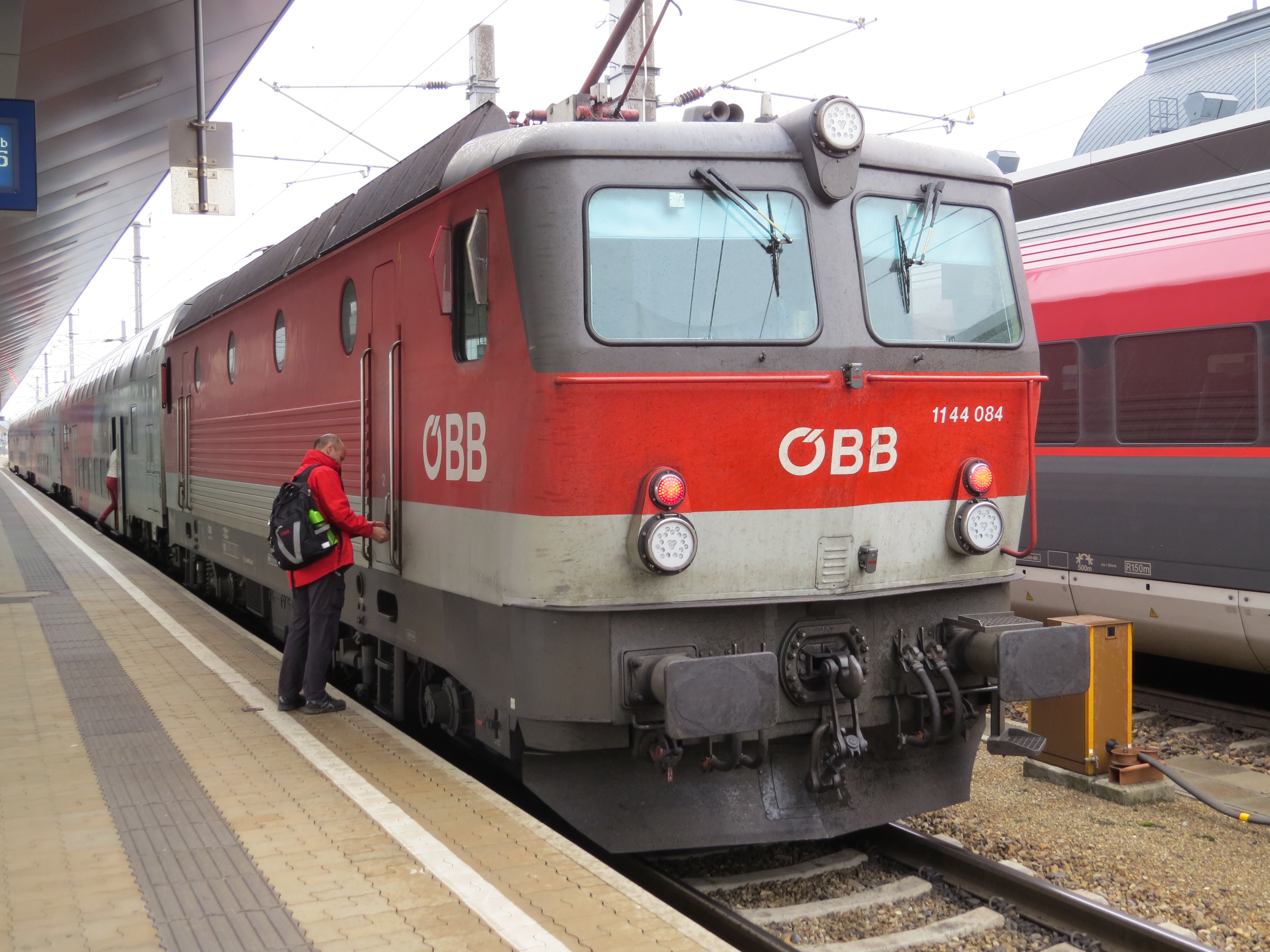 ÖBB 1144 084 with locomotive driver at Hauptbahnhof St. Pölten